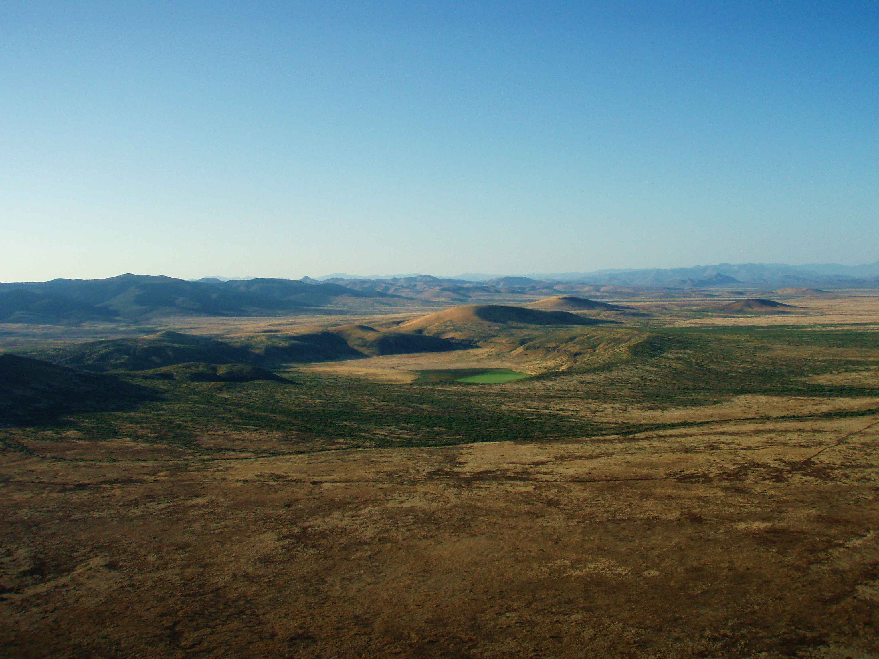 A low level aerial view from the northwest of Paramore Crater in the San Bernardino lava field in the San Bernardino Valley in south eastern Arizona.